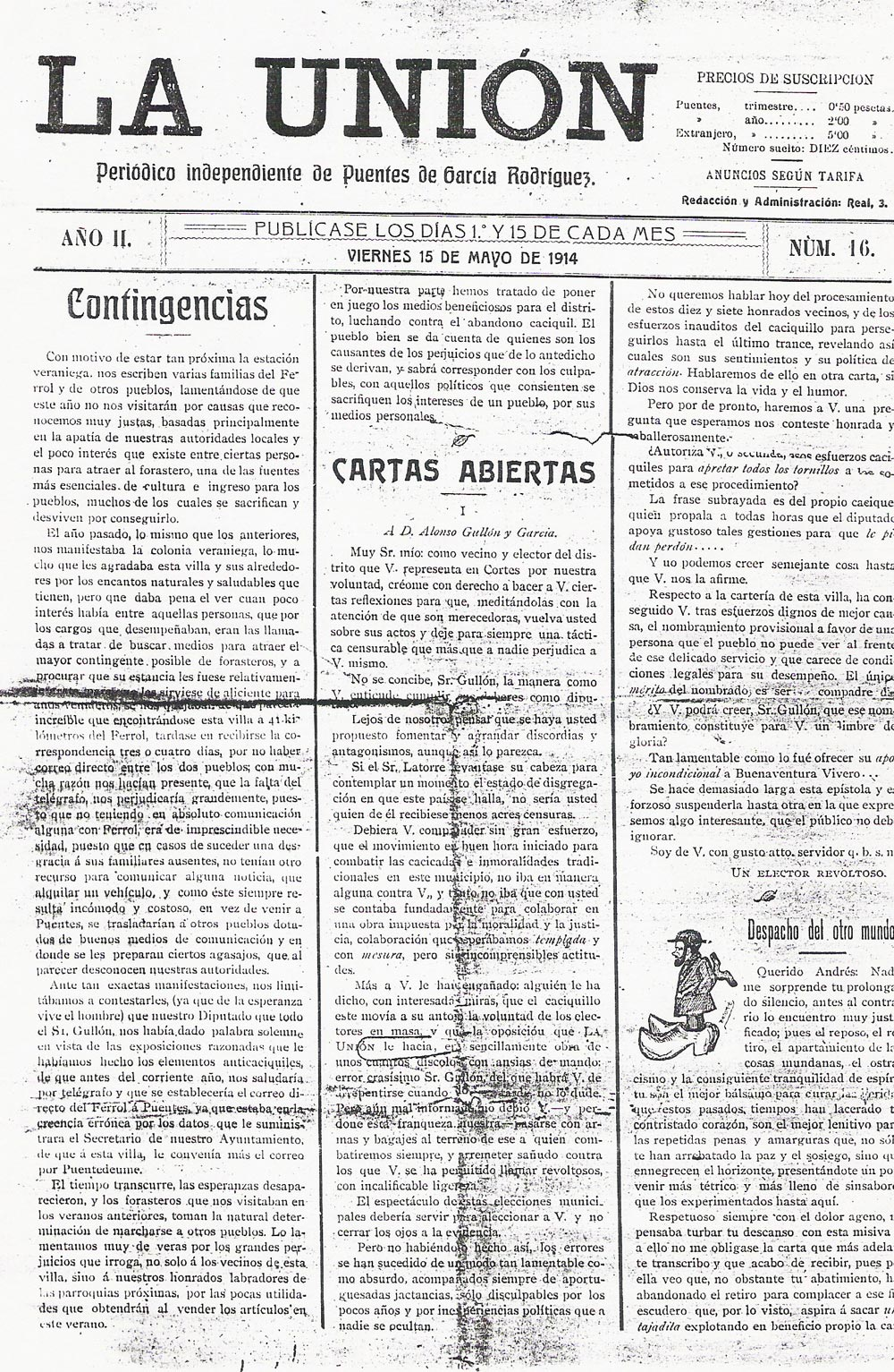 La Unión newspaper, As Pontes de García Rodríguez, issue 16, 05/15/1914